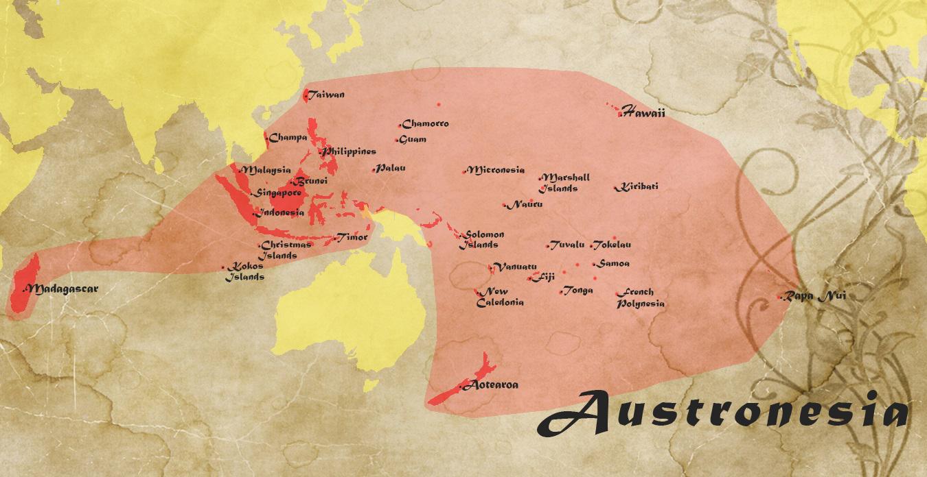 Extent of the homelands of the Austronesian Peoples